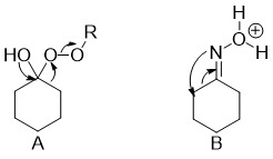 Arrow pushing for the bond migrations in the Baeyer-Villiger oxidation (A) and Beckmann rearrangement (B).